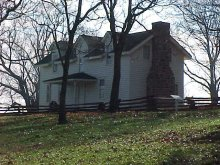 Prairie Grove, Arkansas - personal photo - rights granted